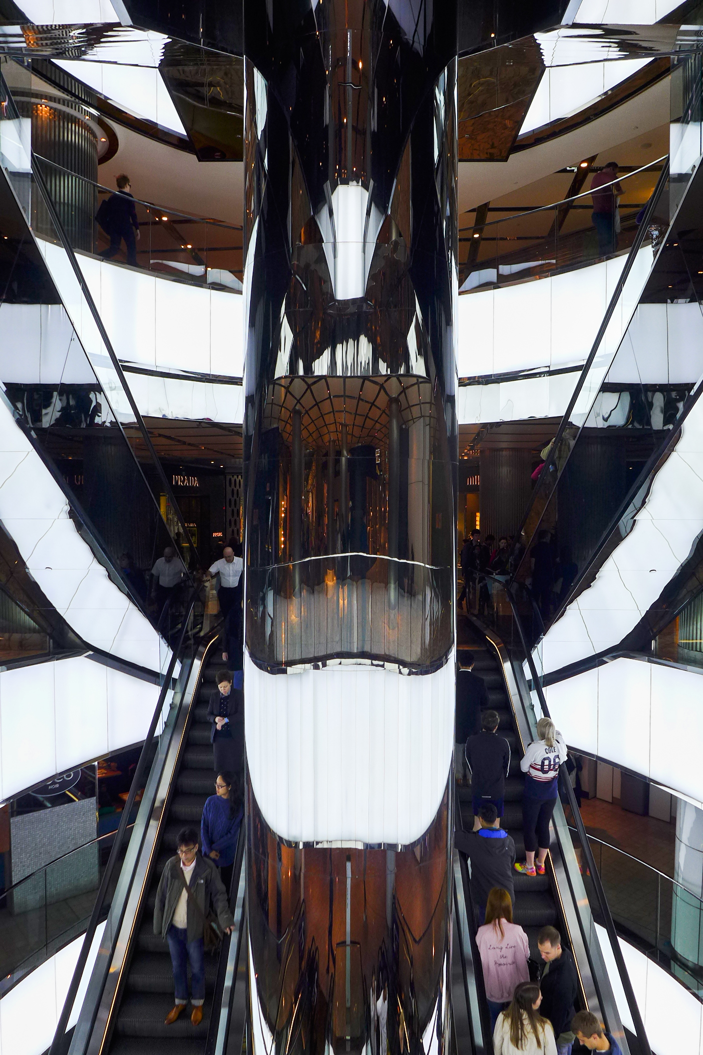 Westfield Sydney Escalator void